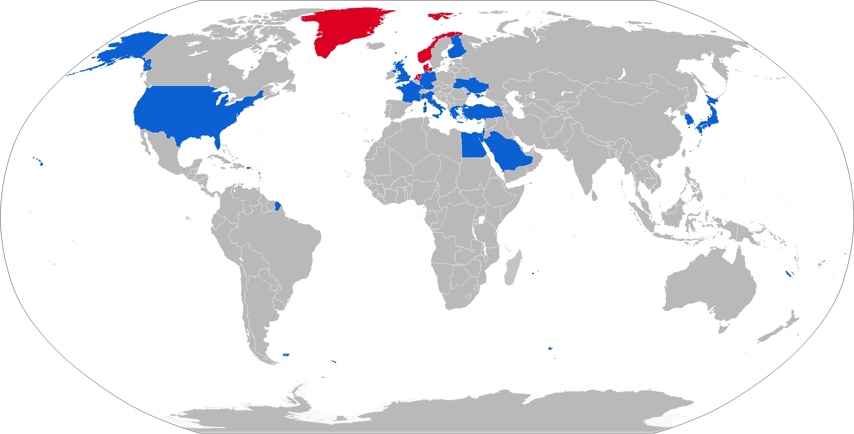 Map of M270 operators in blue with former operators in red